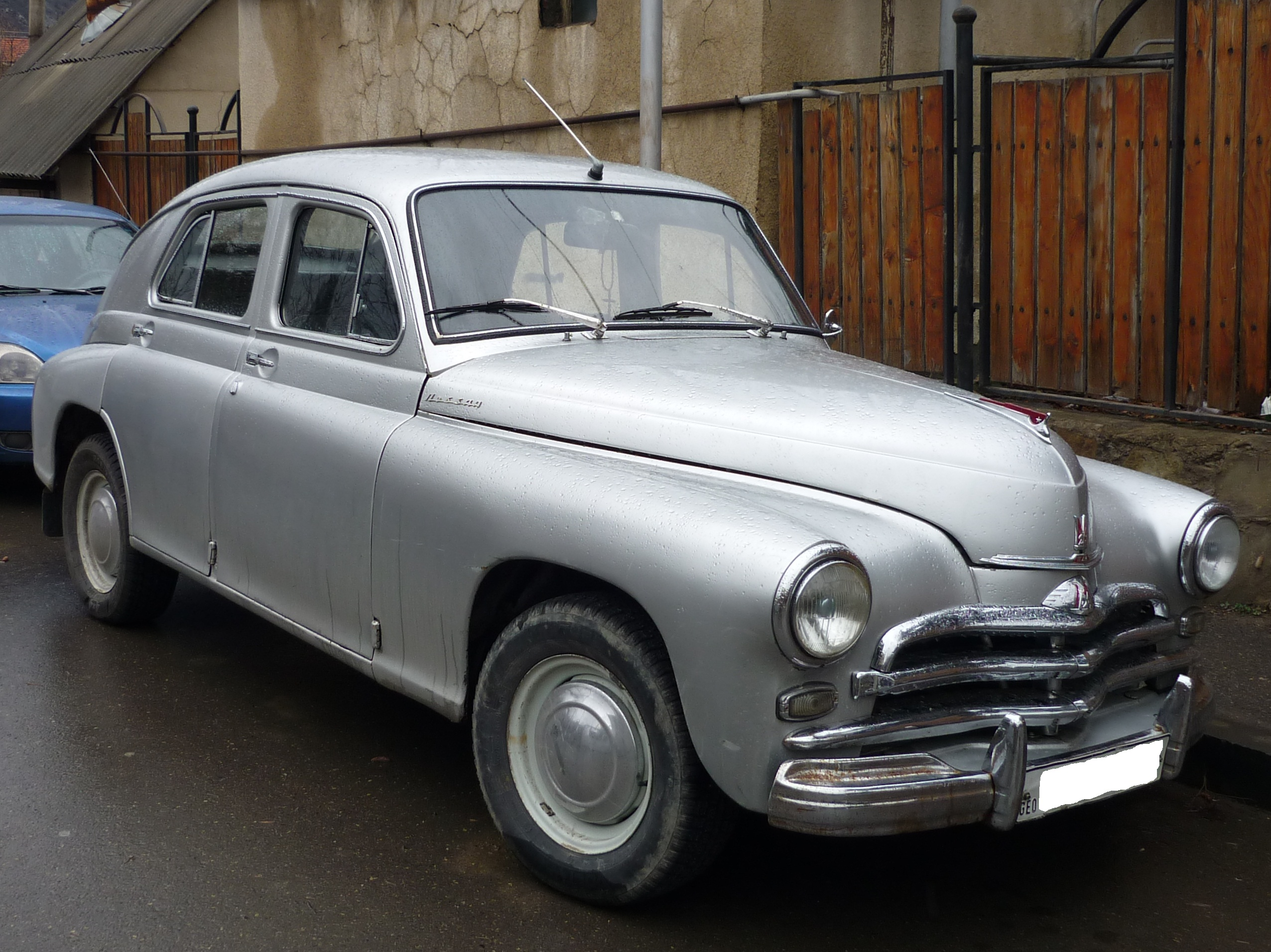 GAZ Pobeda in a street of Mtskheta, Georgia